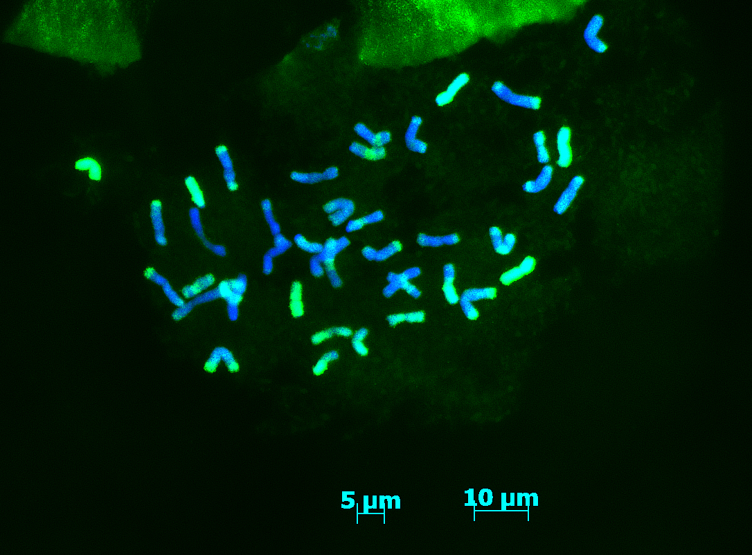 Genomic in situ hybridization (GISH) on chromosomes Thinopyrum intermedium